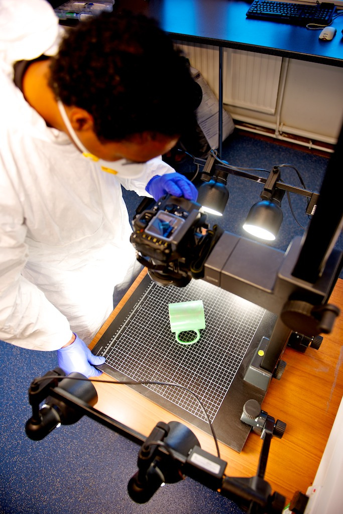 This photo shows one of our West Midlands Police Forensic Scene Investigators using specialist lighting and equipment to photograph an item of potential evidence. FSI's regularly attend scenes of crime to help gather and discover evidence. These can then be safely transported to specialist labs for photographing and further testing.